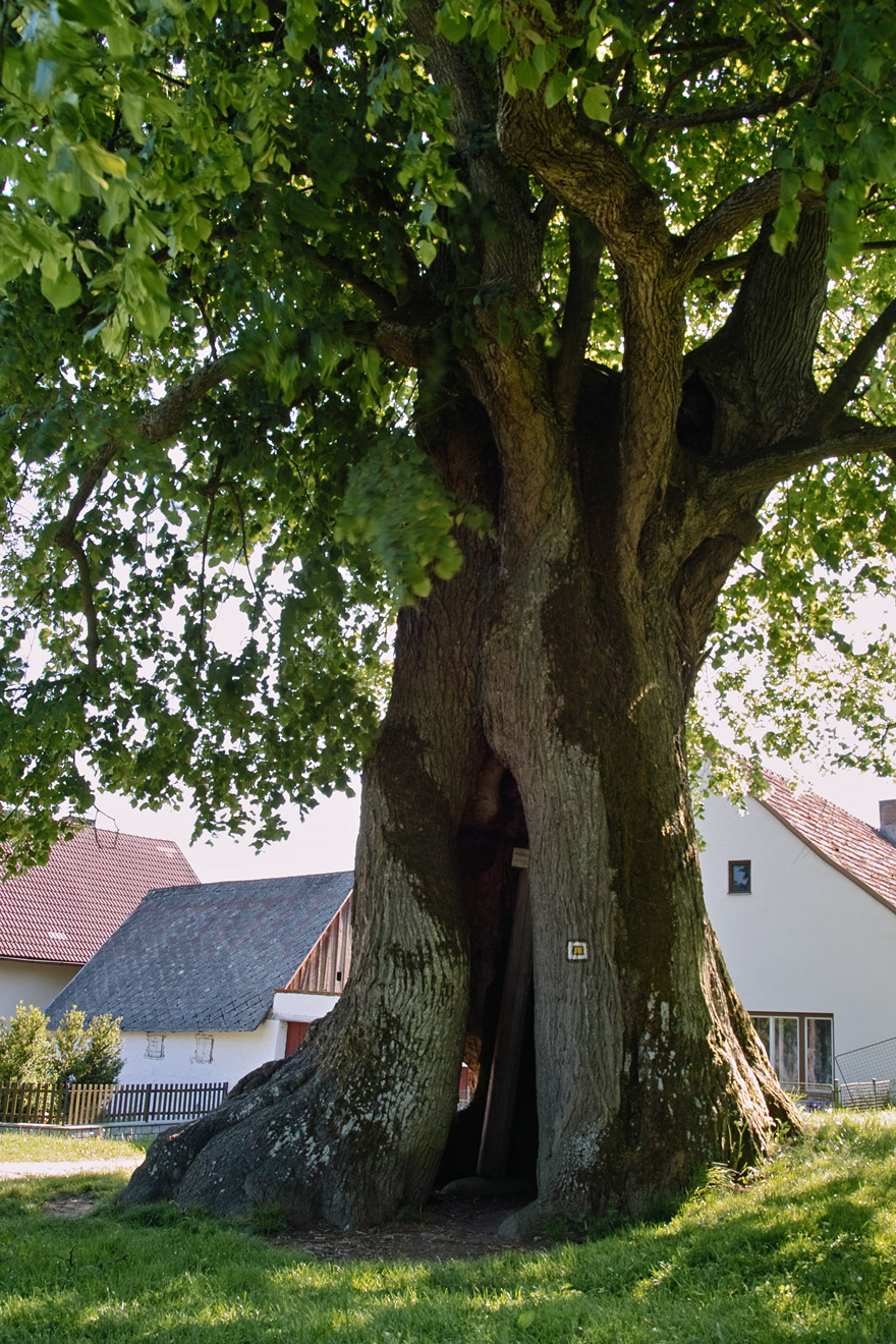 the lime tree of Praskolesy, a hollow tree (500-800 years old), in use as bell-tower. Czech Republic